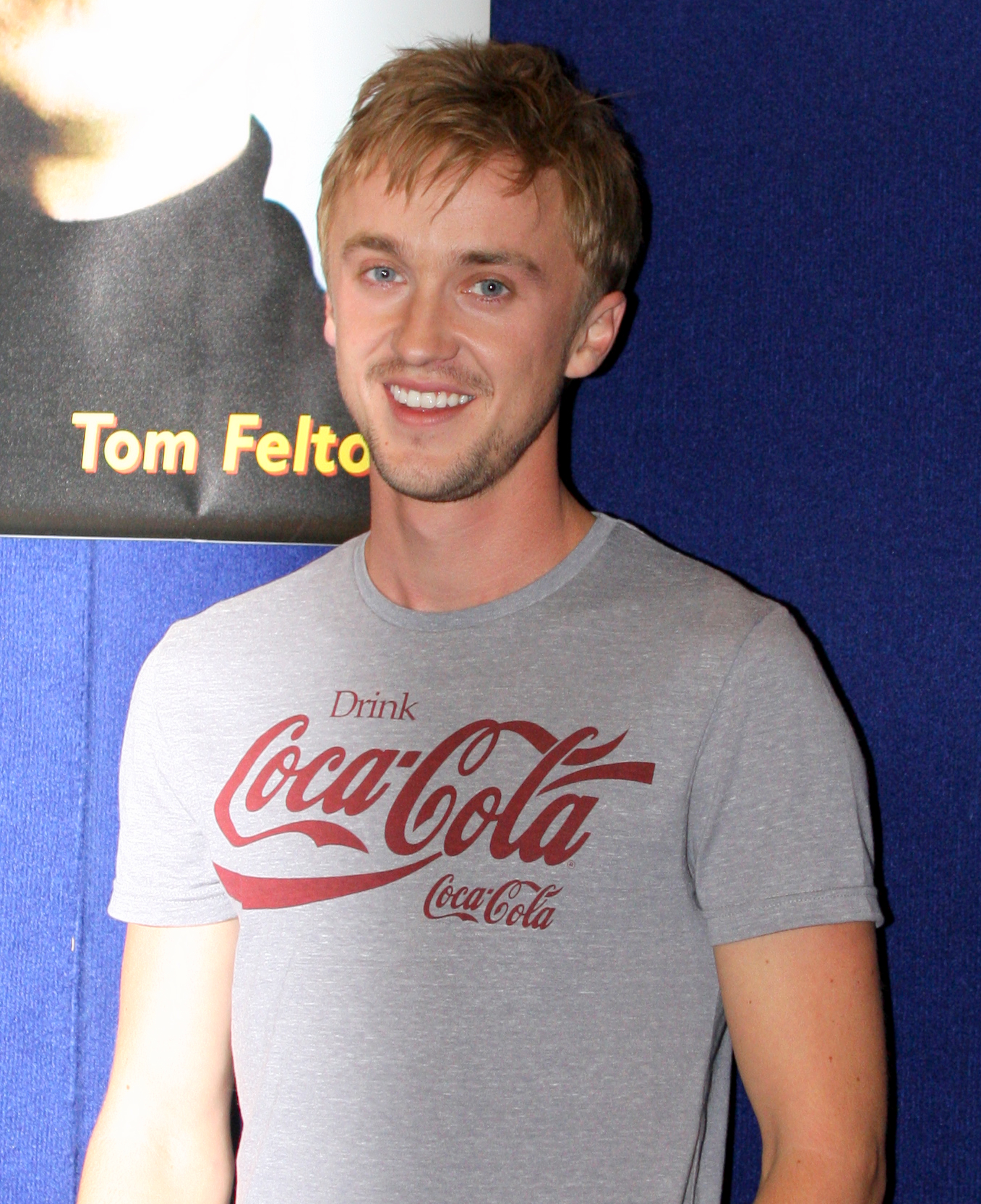 Tom Felton at the Supanova Pop Culture Expo 2011